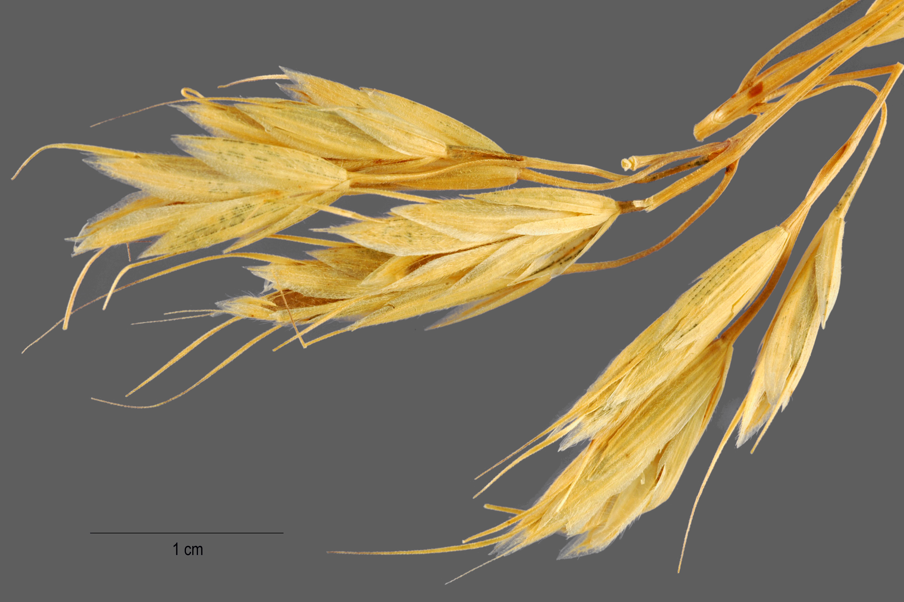 Bromus squarrosus L. (corn brome)